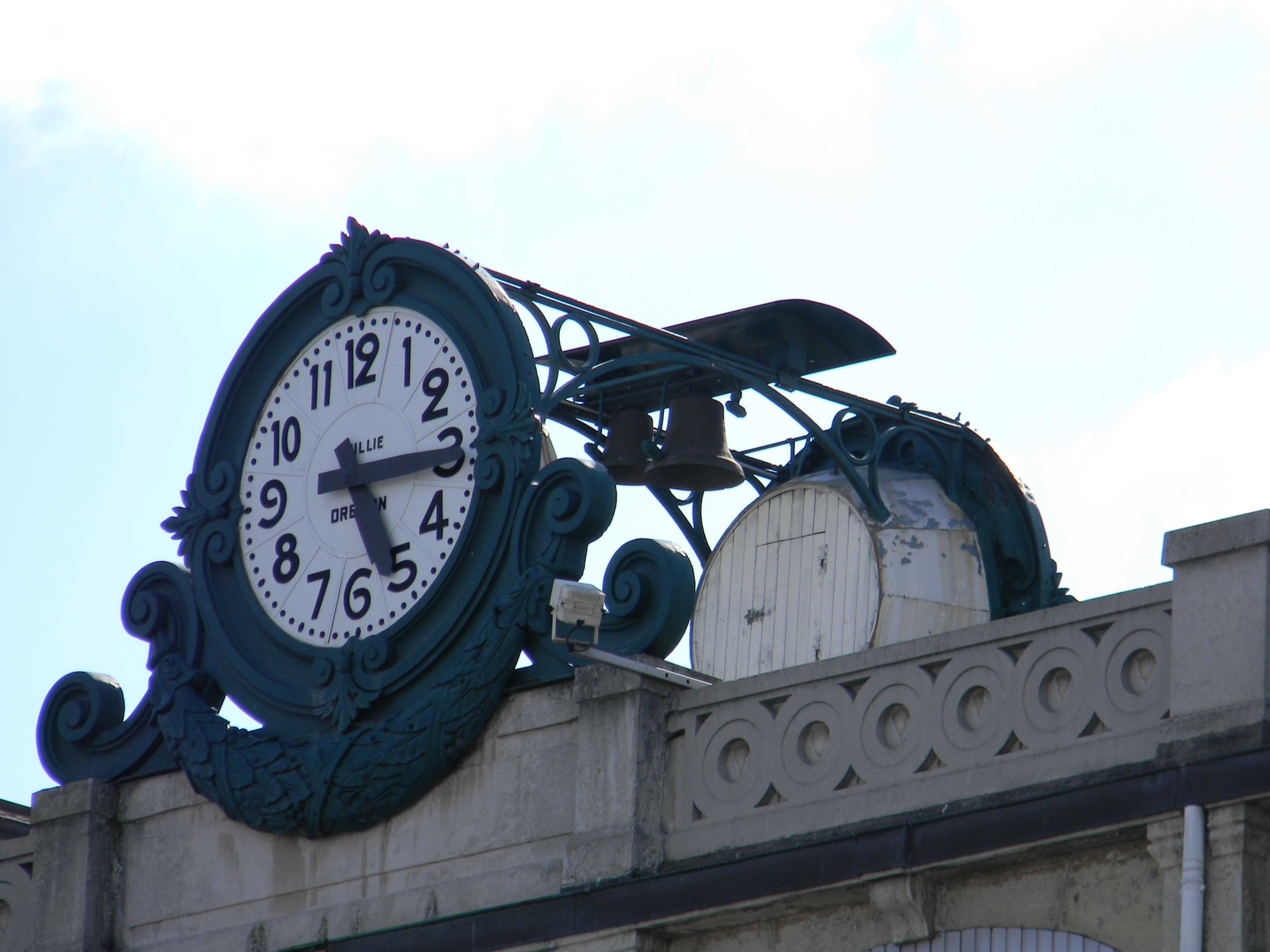 Clock of the Croix-Rousse hospital in Lyon